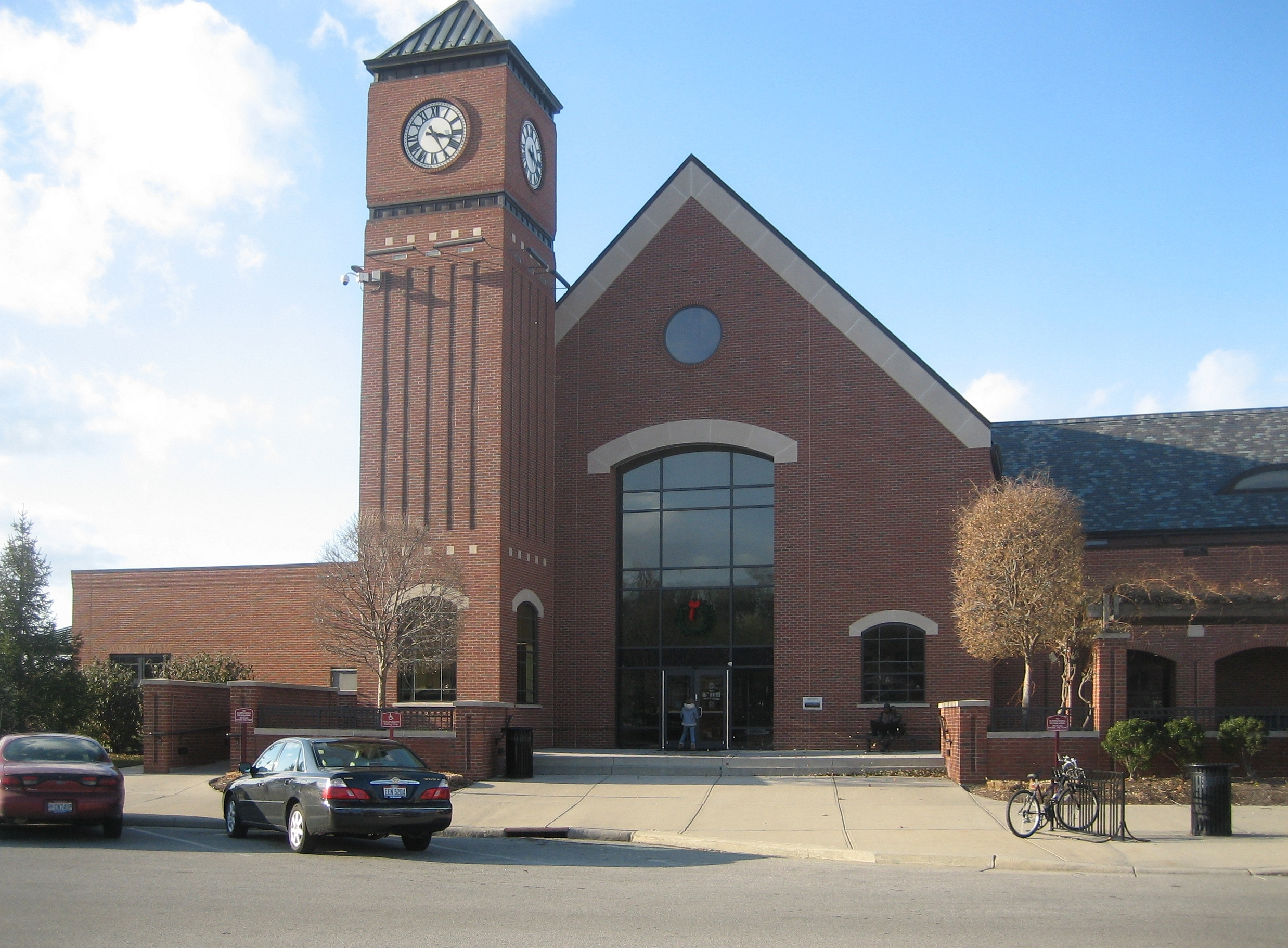 The municipal library of Fairfield, OH